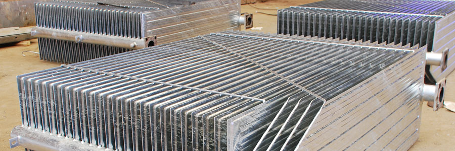 hot dip glvanizing glvanize.ir